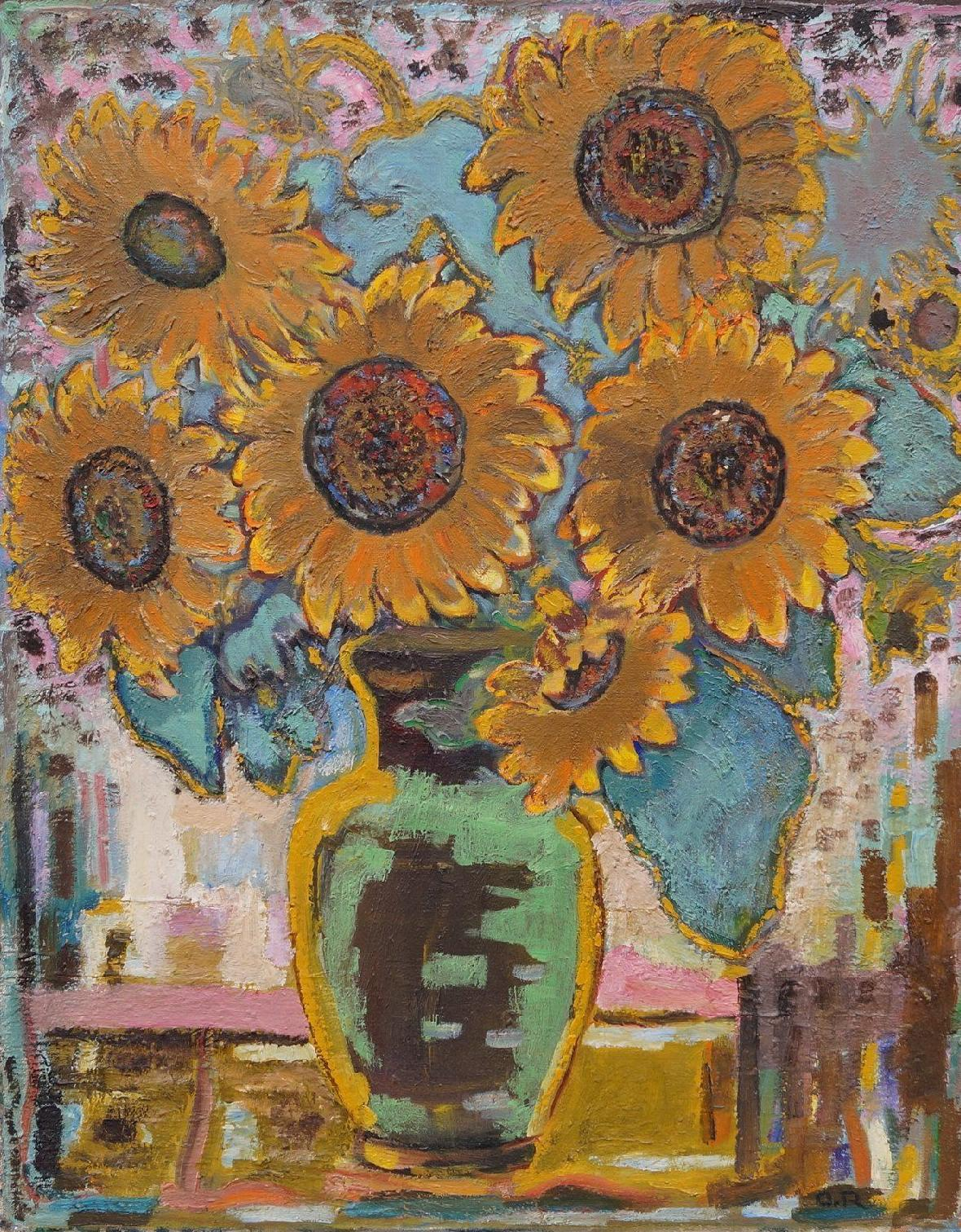 Painting by Otto Reiniger